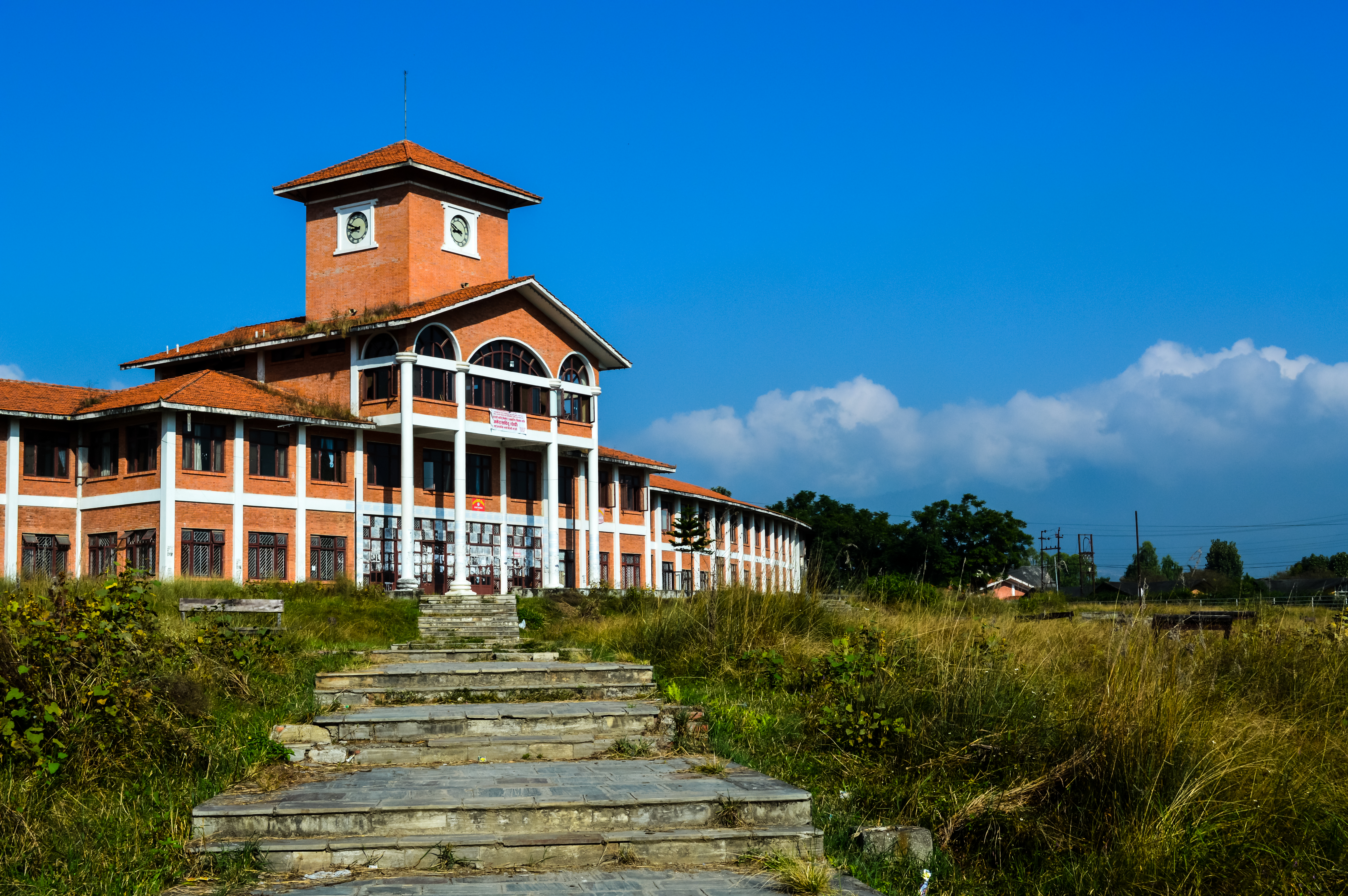 This is a morning view of a building at Tribhuvan University,Arts Faculty.It has a bell tower which rings every hour.The condition of this structure is not good now.Proper renovations and maintenance is needed. Exif:18-55mm AF-S DX VR 1/500 sec at f/11.0 ,ISO280 32mm